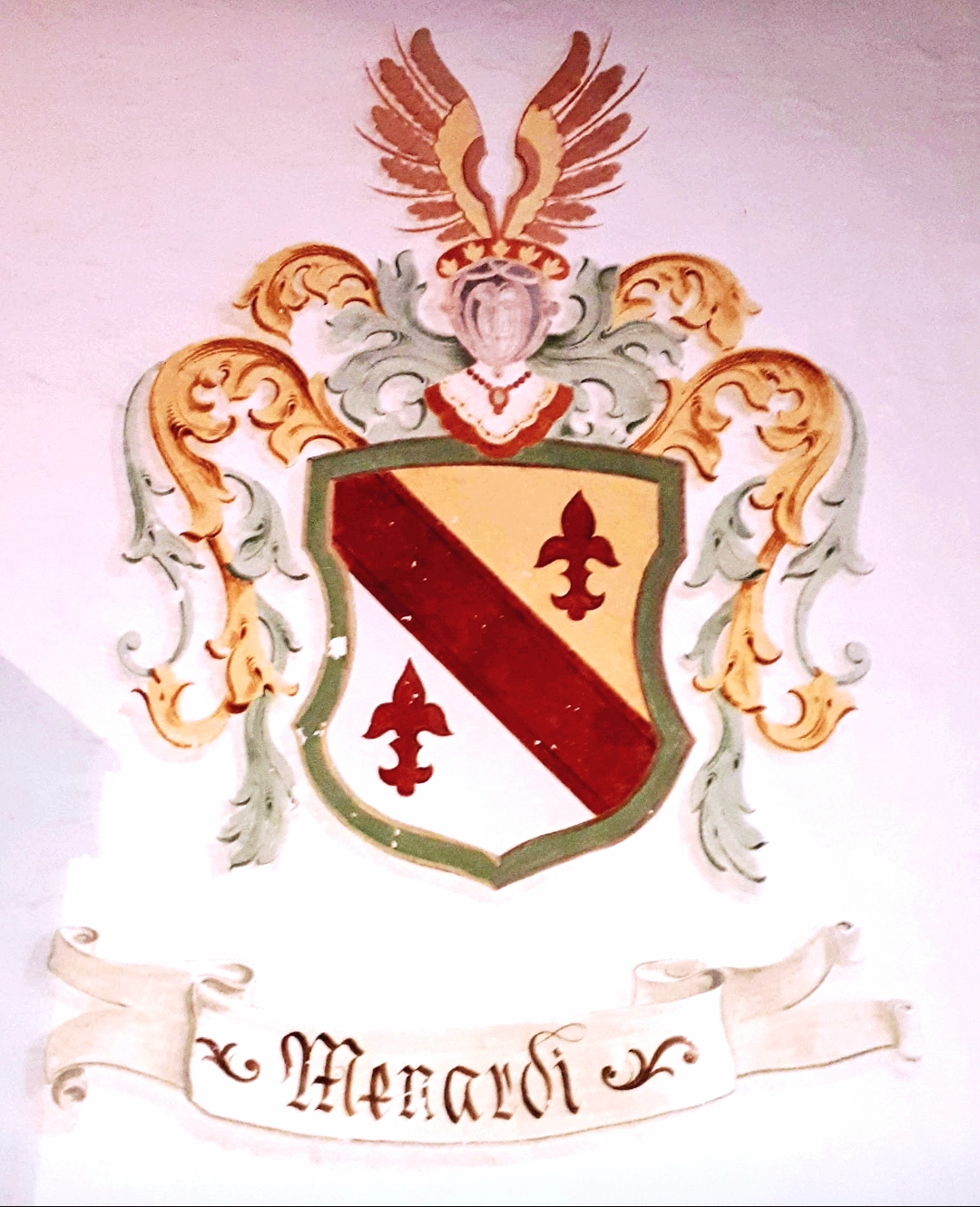 Stemma Menardi